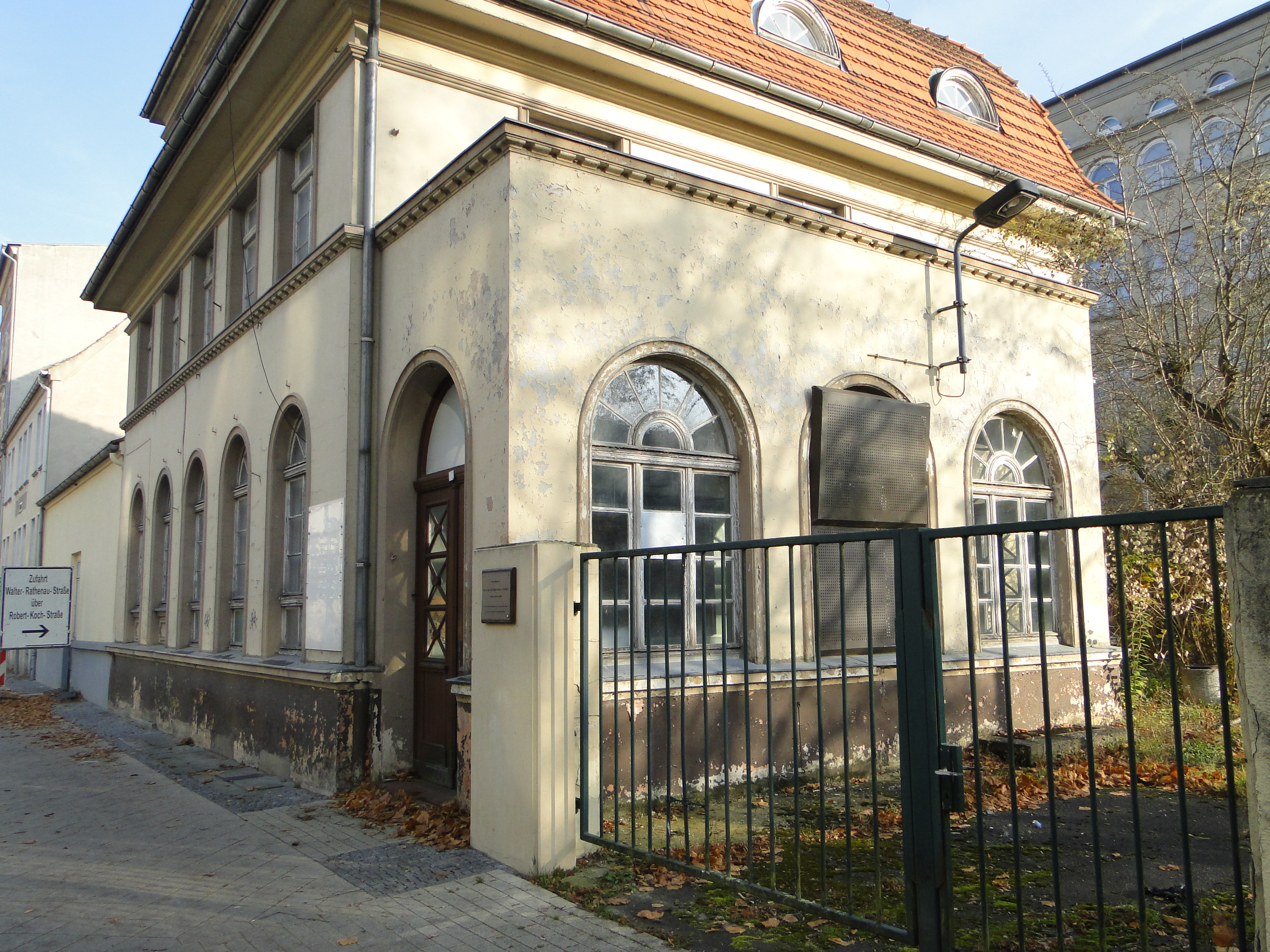 Former district hospital in the street Werderstraße in Schwerin, Mecklenburg-Vorpommern, Germany